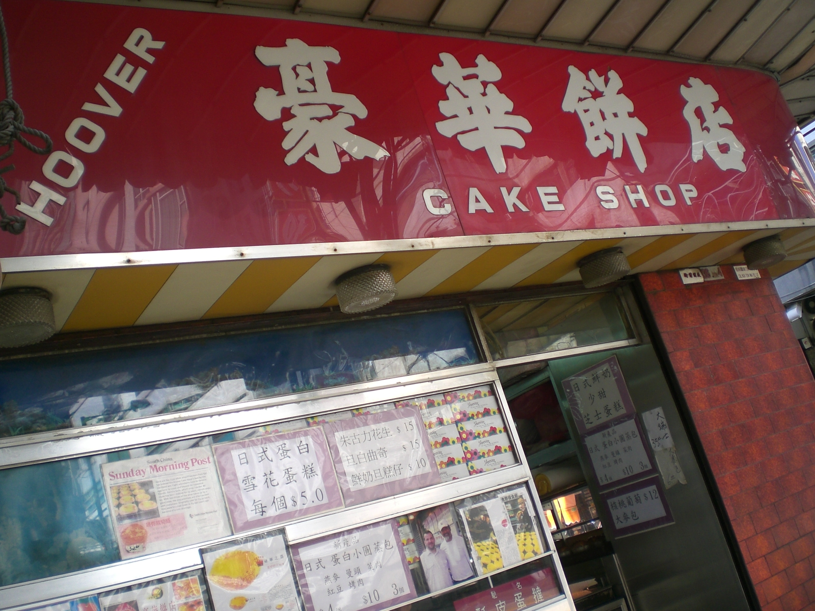 豪華餅家, 衙前圍道, A famous cake shop, Nga Tsin Wai Road, Kowloon City.